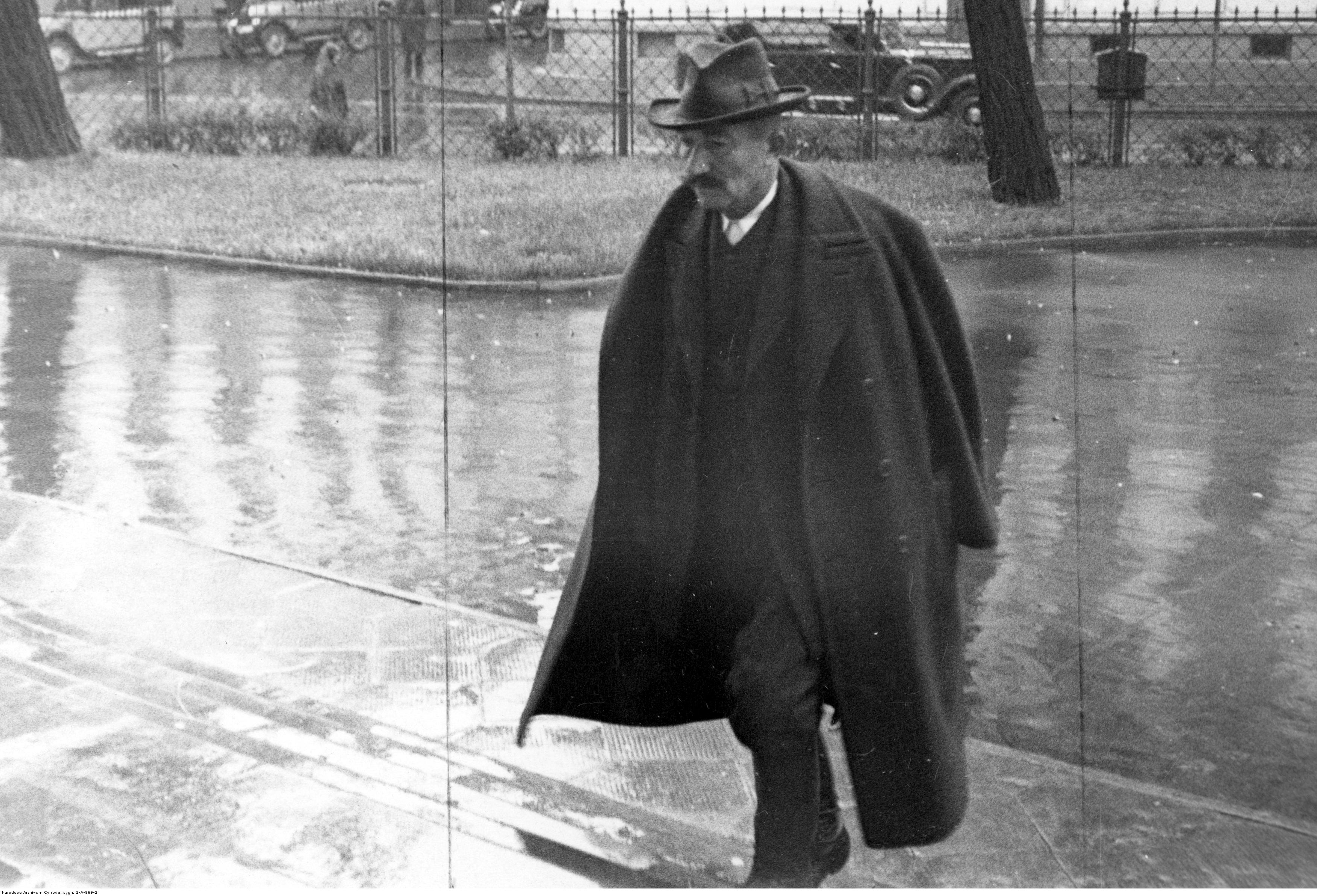 Wincenty Witos on his way to Sejm (Polish parliament).